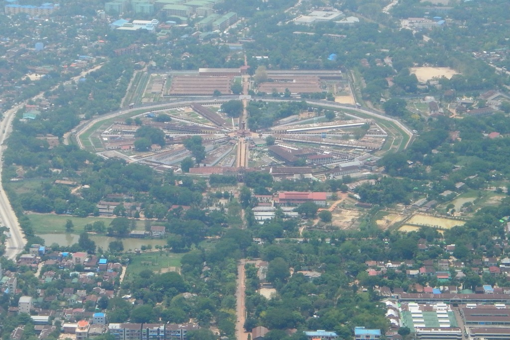 Aerial view of Insein Prison